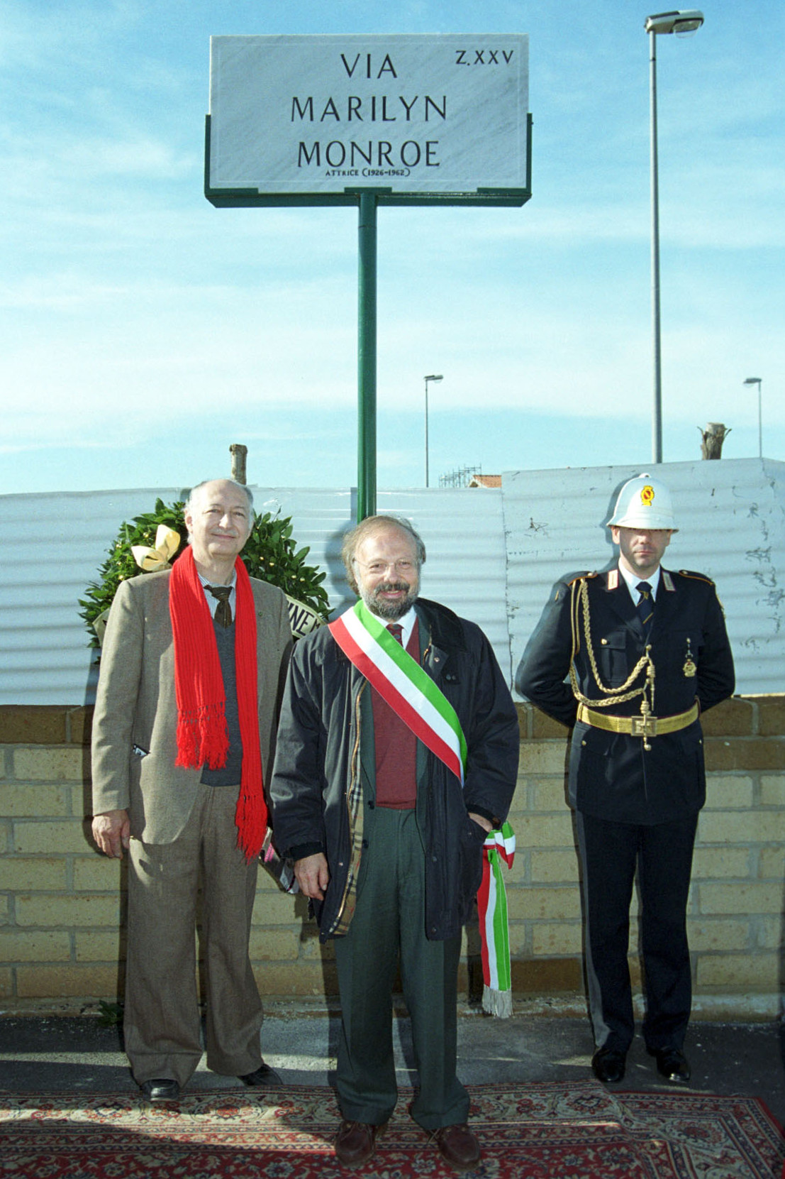 Inauguration of a street dedicated to Marilyn Monroe in Rome.